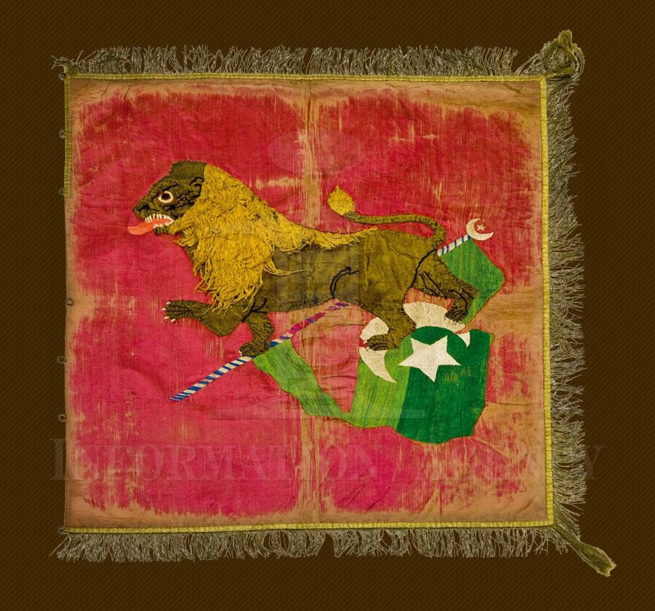 Flag of the Struga insurgents used in the Ilinden uprising